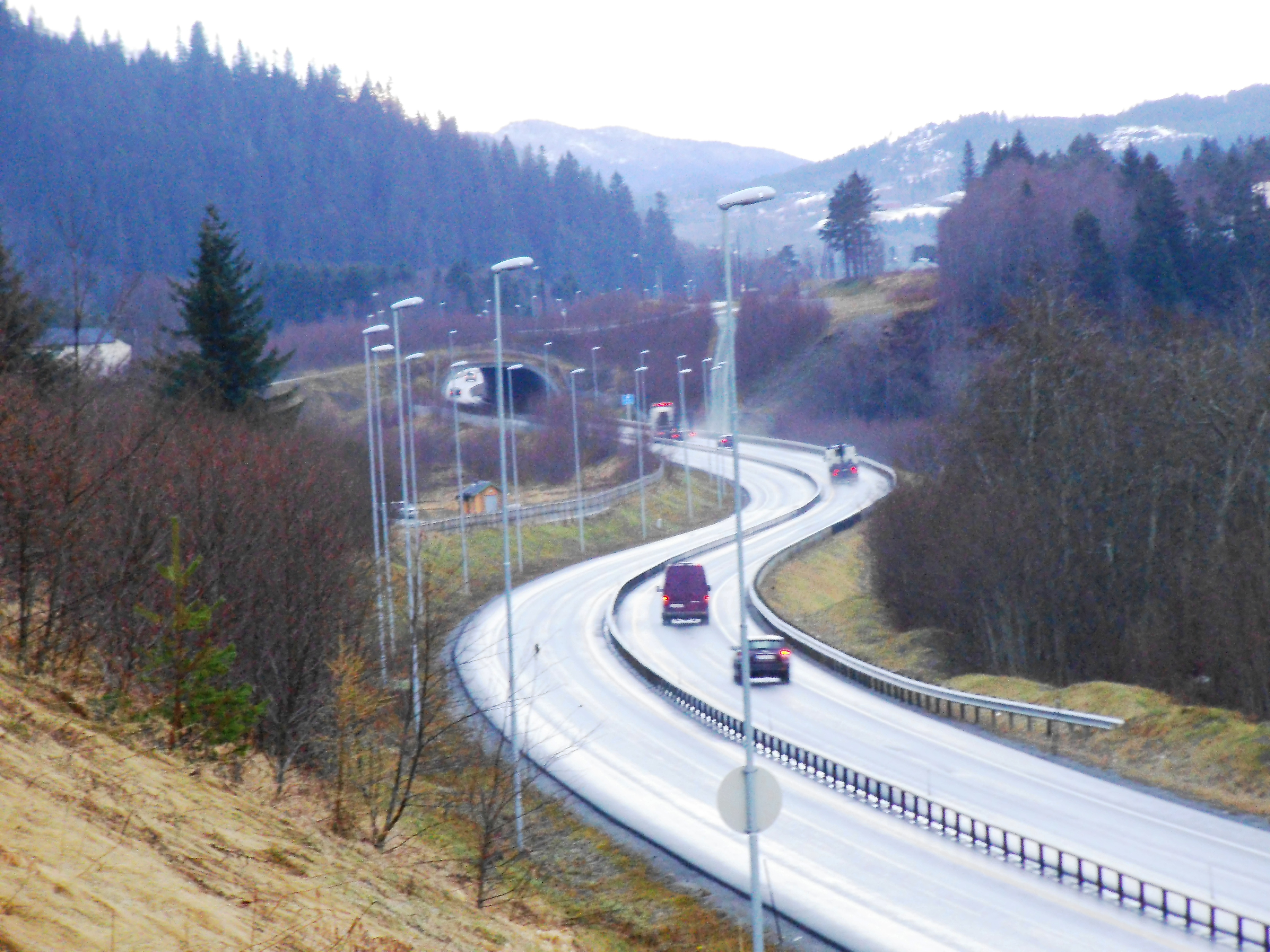 E6 (a highway) in Søberg, Melhus. Direction south.